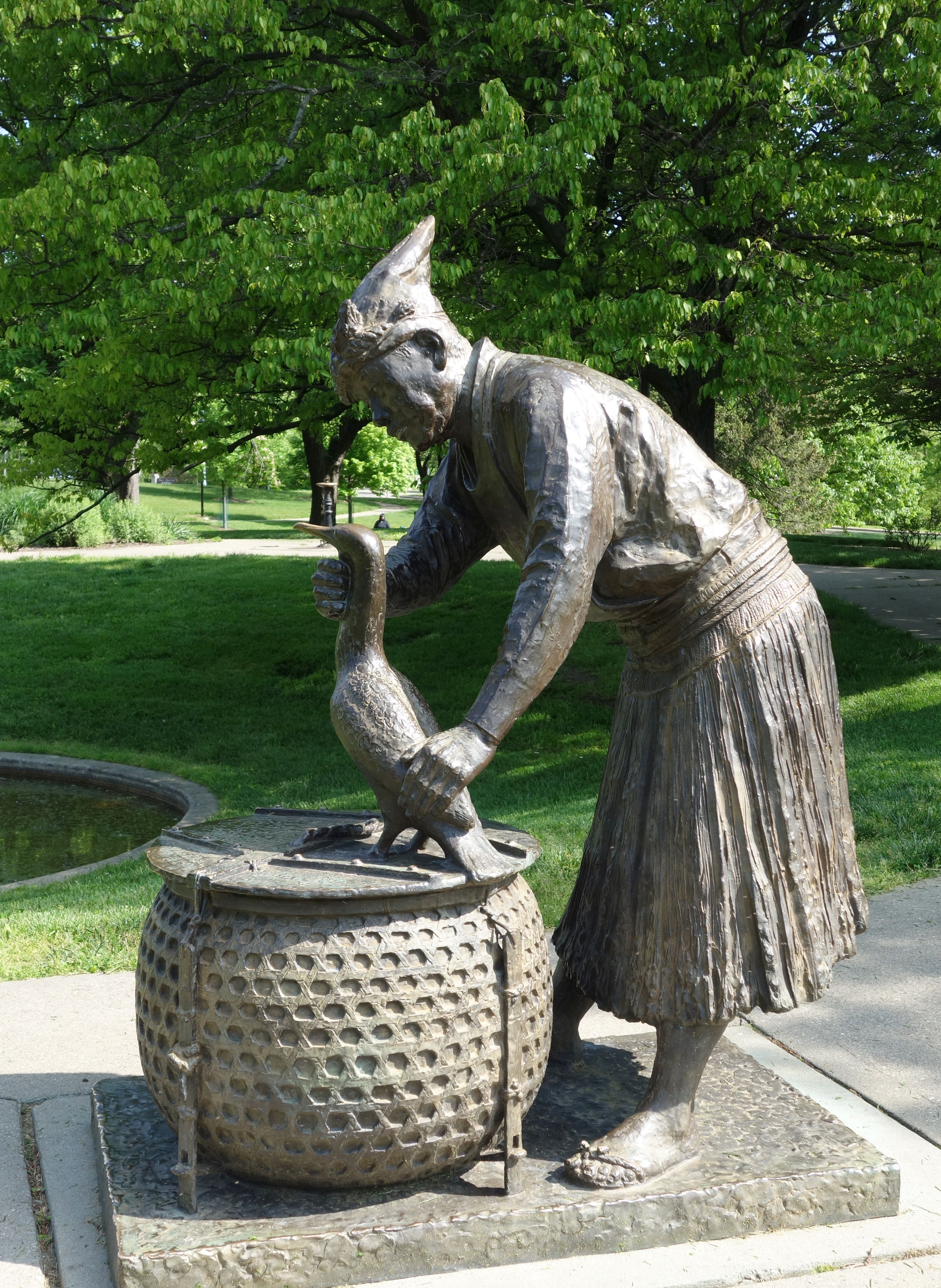 Cormorant Fisherman, a gift of Gifu, Japan. Located in Eden Park, Cincinnati, Ohio, USA.